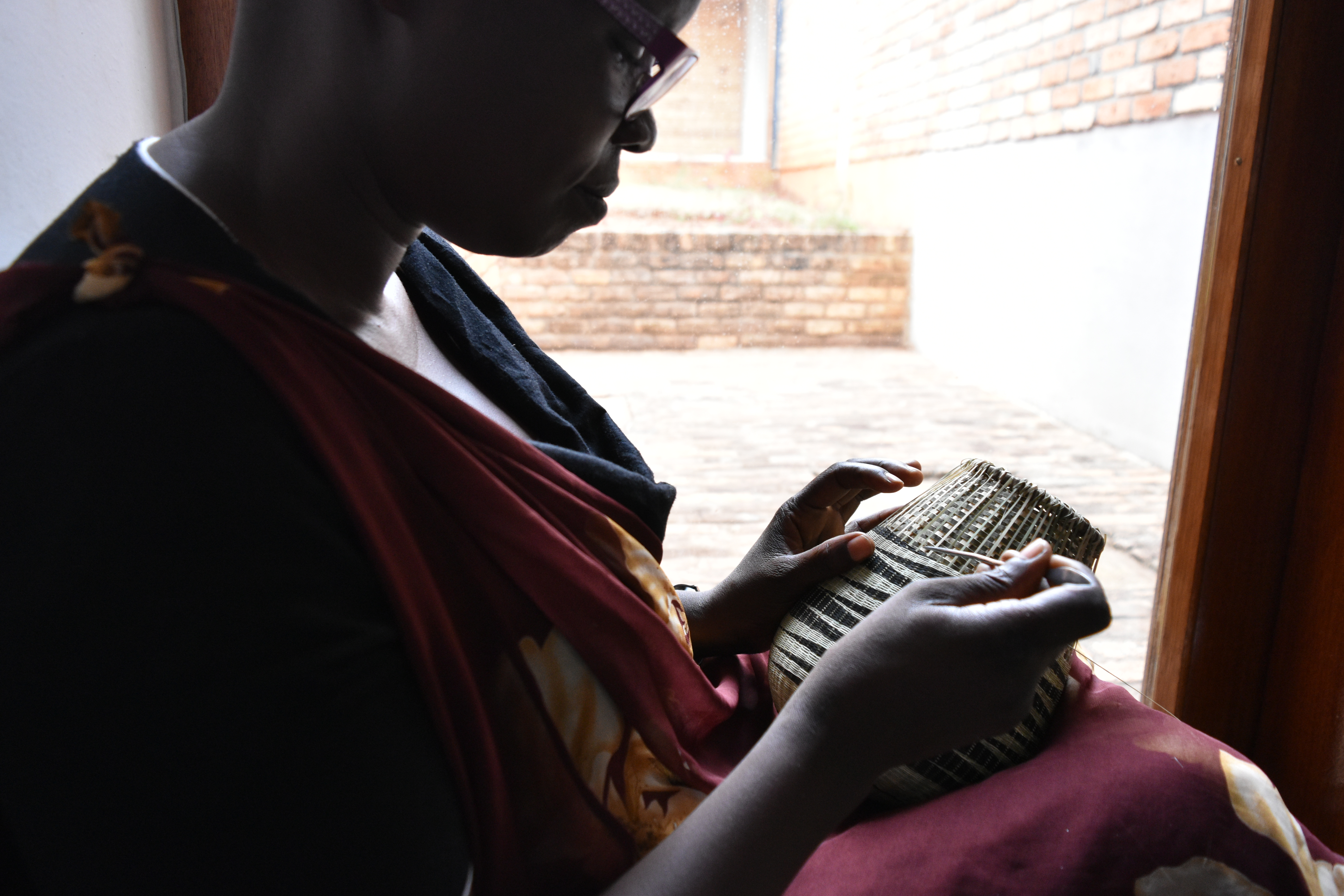 This is an image of "African people at work" from Rwanda